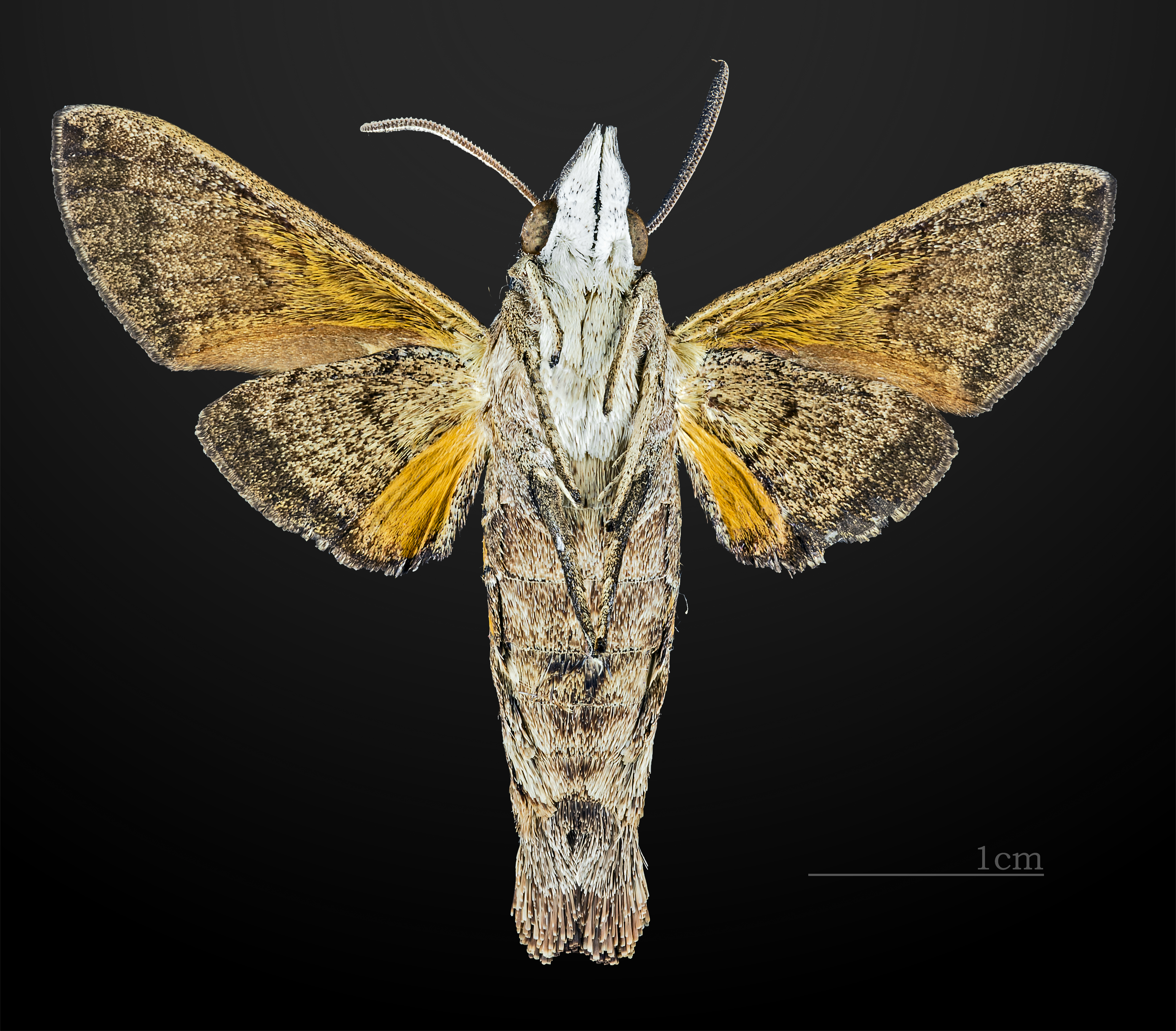 Macroglossum affictitia - △ Ventral side Collection of the Mathematician Laurent Schwartz